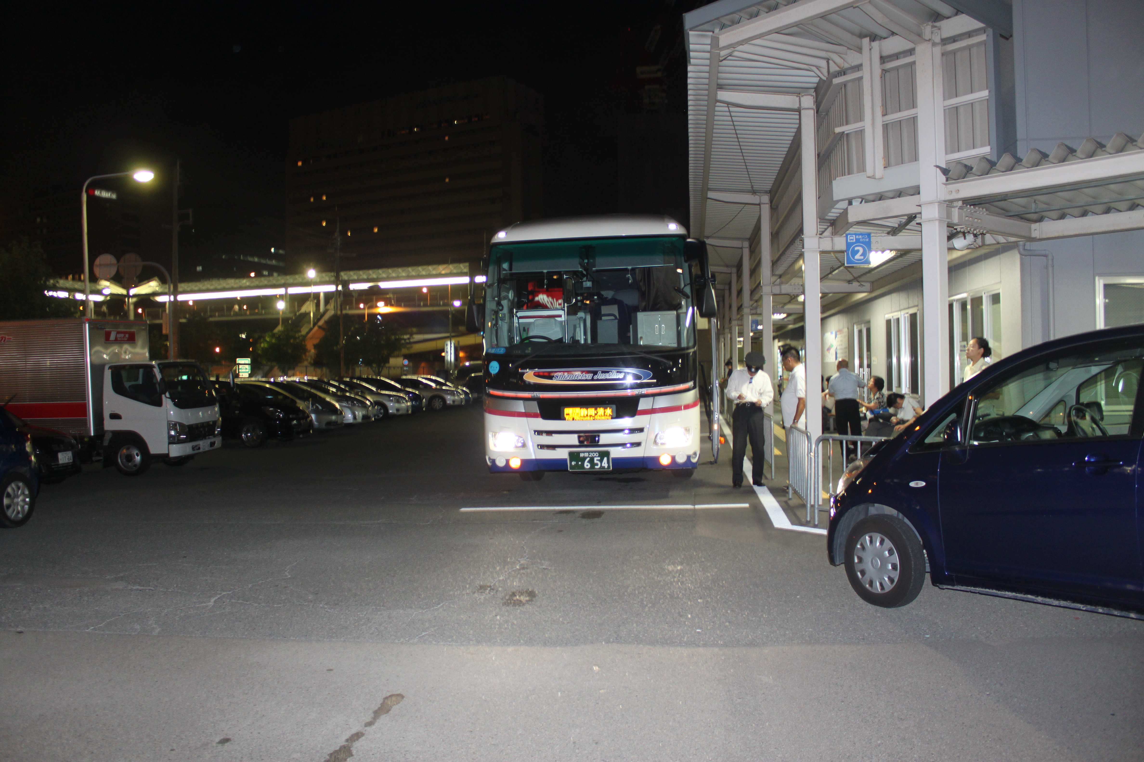 Shizutetsu JustLine HighwayBus Kyoto OsakaLiner 634